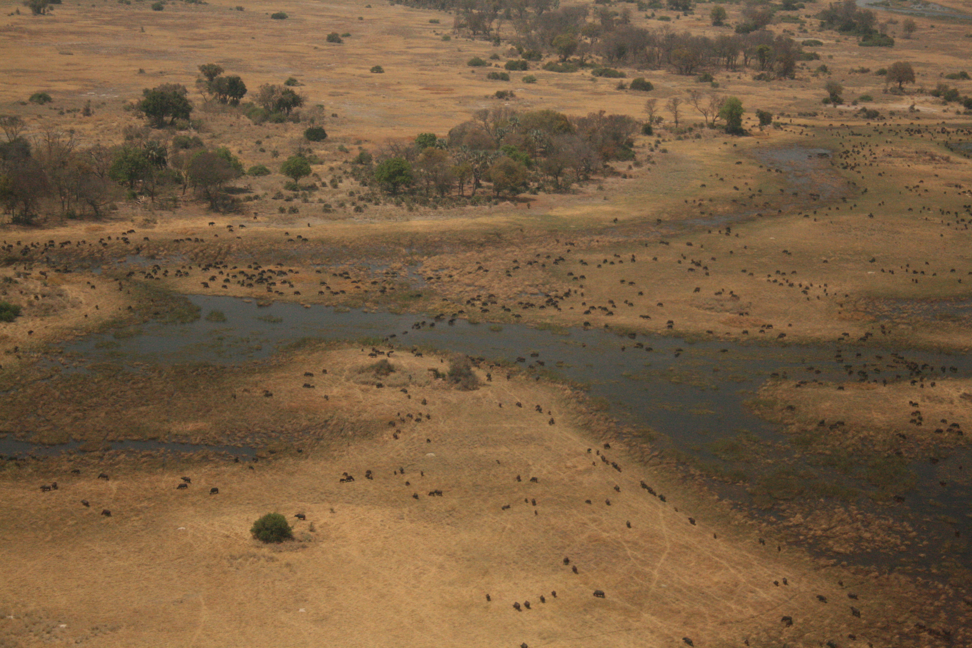 A buffalo herd in the Southern part of the Okavango Delta.